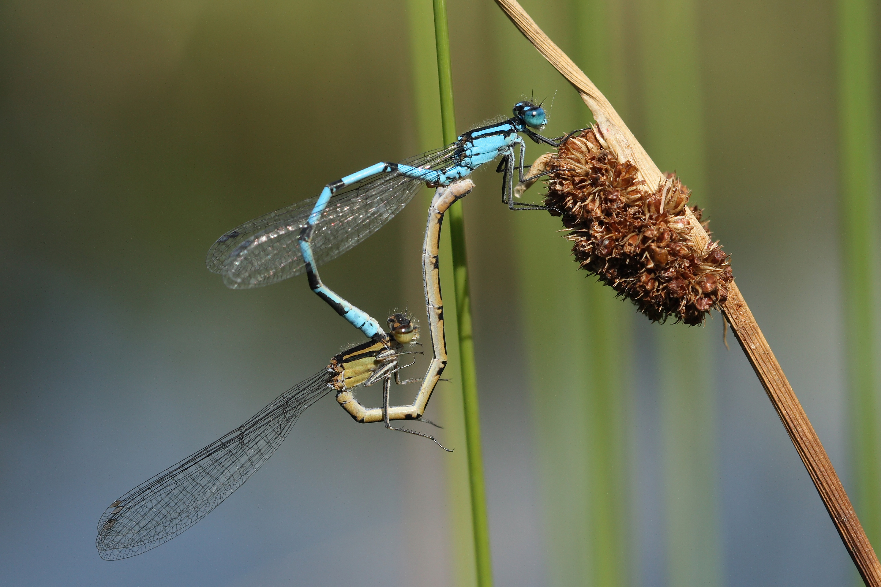 Mating wheel of the Common Blue Damselfly (Enallagma cyathigerum) in the Ahlenmoor, a peatland in northern Lower Saxony, Germany.